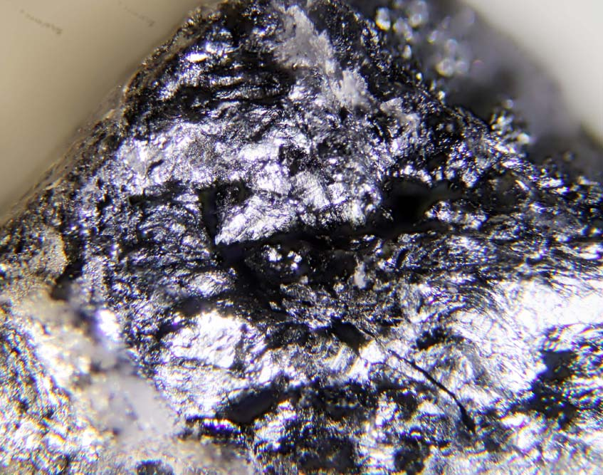 Aurostibite is a rare mineral of simple chemistry, since it is a gold antimonide, AuSb2. It occurs in this specimen as silvery crystal aggregates scattered on the specimen. From: Krásná Hora Nad Vltavou, Bohemia, Czech Republic.